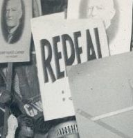 John Garner supports at 1932 DNC